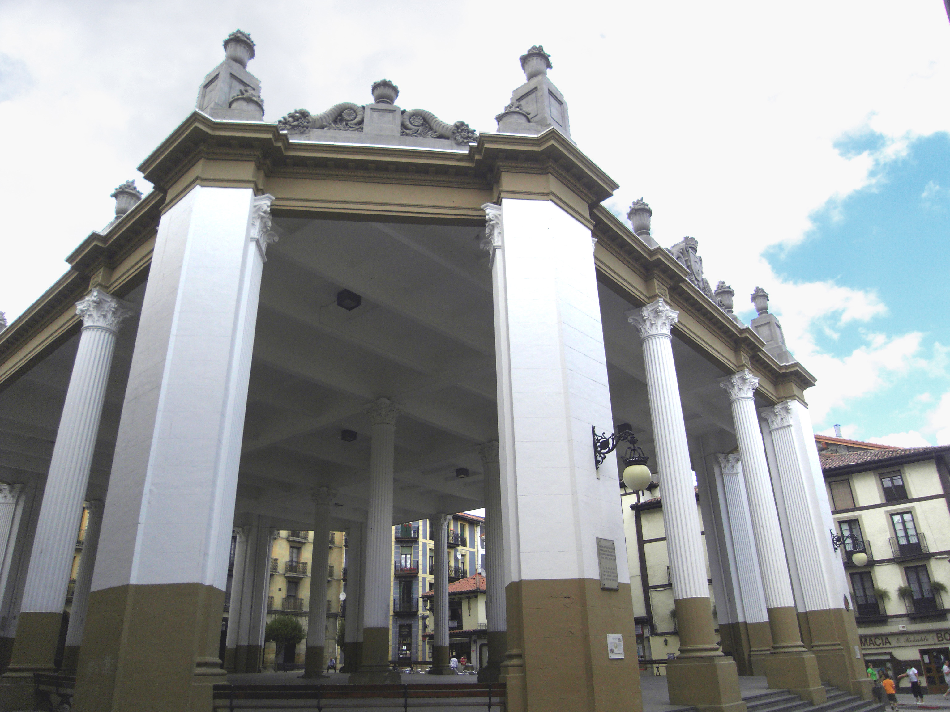 Covered market square, Ordizia (Guipuscoa, Basque Country)